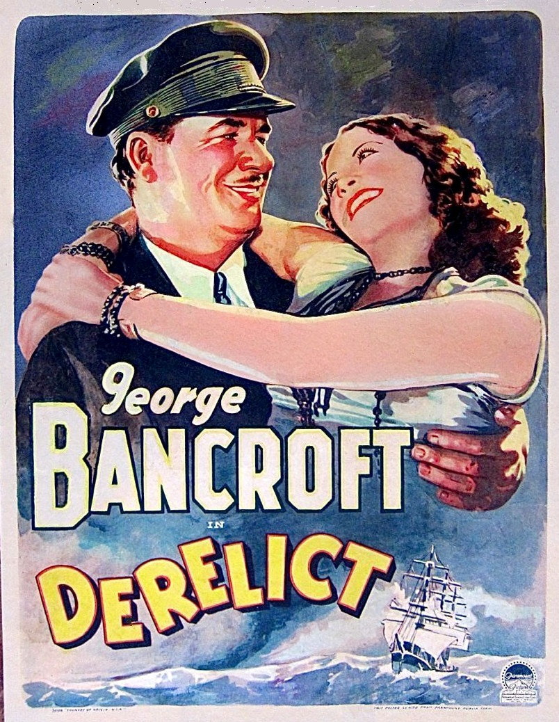 Poster for the 1930 film Derelict. This is a copy of a window card poster unedited copy. The top was originally blank so a local theater could affix its own information. The top has been cropped out and minor flaws to the poster corrected. There are no copyright marks as can be seen at the links. At bottom left is 3048 Country of Origin USA. At bottom right is This poster leased from Paramount Publix Corp.